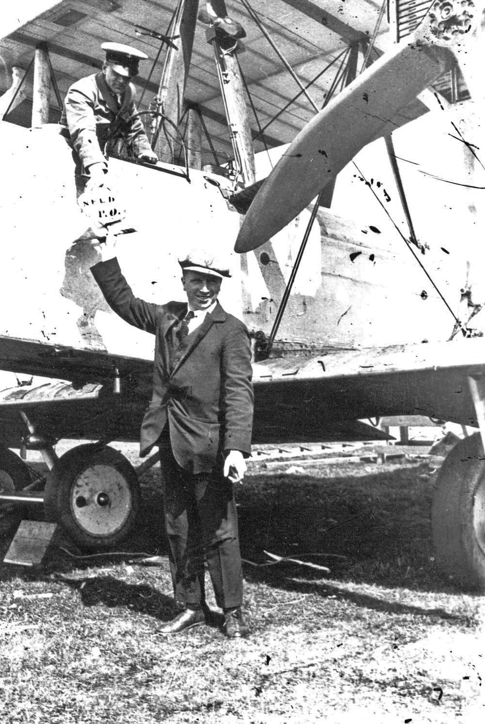 Alcock and Brown taking on mail on Vickers Vimy, June 14, 1919. CNS Photo 0504001